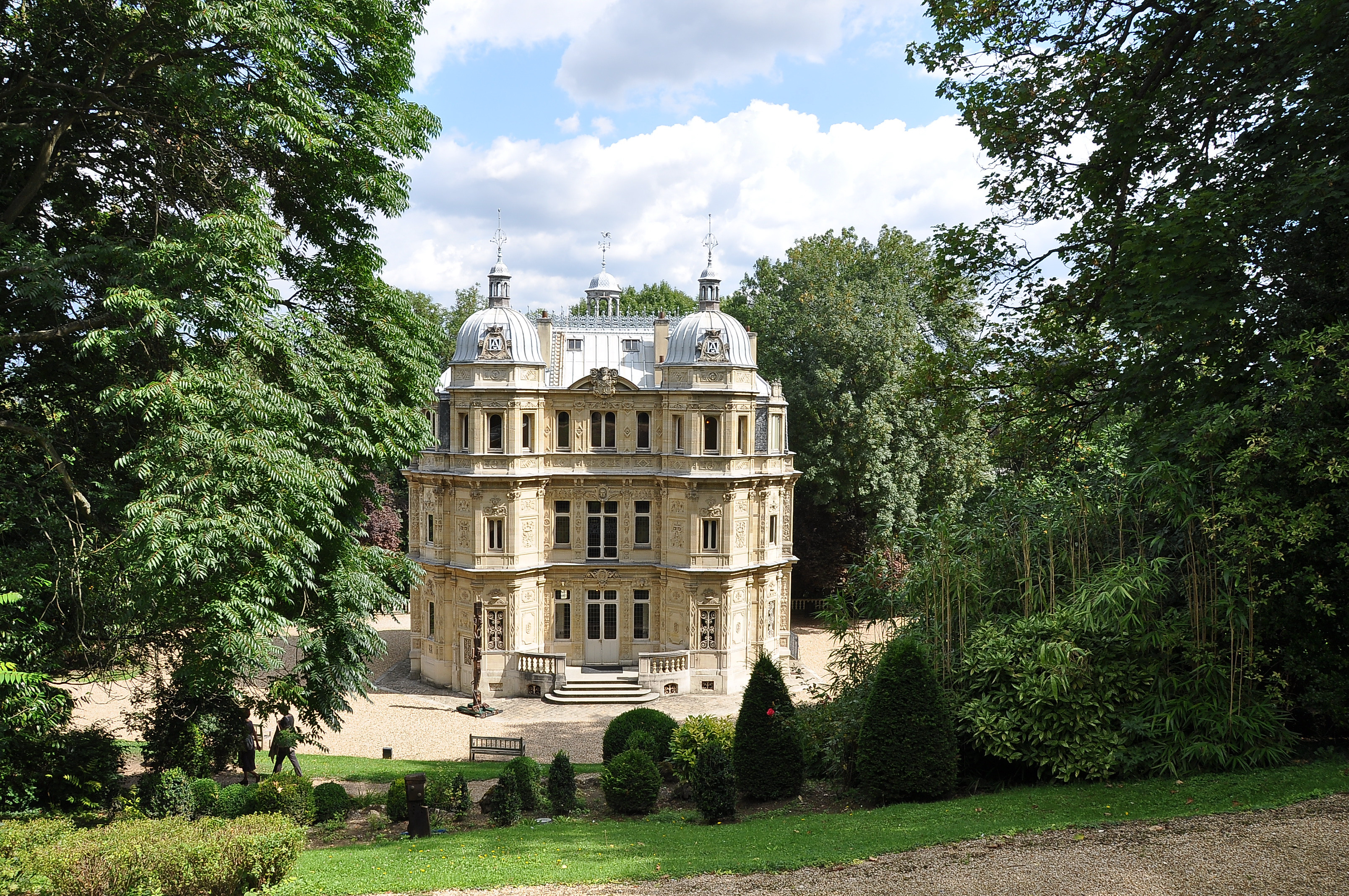 Château de Monte-Cristo of the famous writer Alexandre Dumas in Le Port-Marly, Yvelines, France.